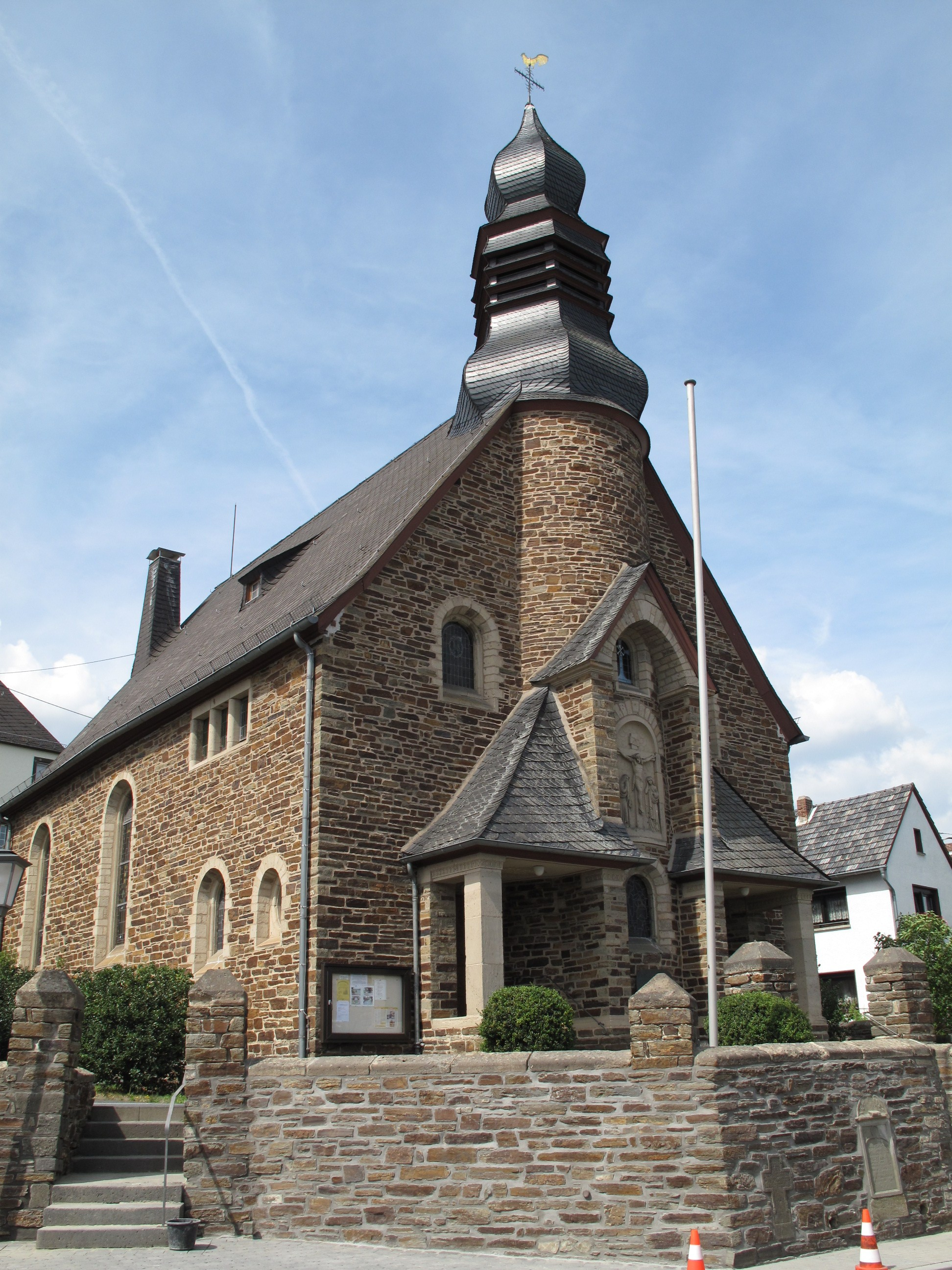 Ramersbach, church